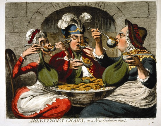 Monstrous Craws at a New Coalition Feast. Published by S. W. Fores, May 29, 1787. Etching and aquatint with engraving, hand-colored. Note: Queen Charlotte, George, Prince of Wales, and King George III ravenously ladle guineas into their mouths from a bowl marked "John Bull’s Blood." The money falls into bags attached to their necks – the monstrous craws of the title, a term normally applied to the crops of birds. Gillray used the imagery of gluttony to criticize the exorbitant demands on the public purse being made in 1787 by the British royal family. The worse offender was the prince, who sits at center. Parliament recently had granted him £161,000 (about thirteen million dollars today) to pay off debts, and raised his annual income to £60,000. Since the prince’s pouch remains empty, Gillray suggests this largesse will be insufficient. The king and queen, on the other hand, who were notoriously miserly in their living arrangements, are criticized for greedily ladling up coins that they do not actually need into grotesquely distended craws (The MET).